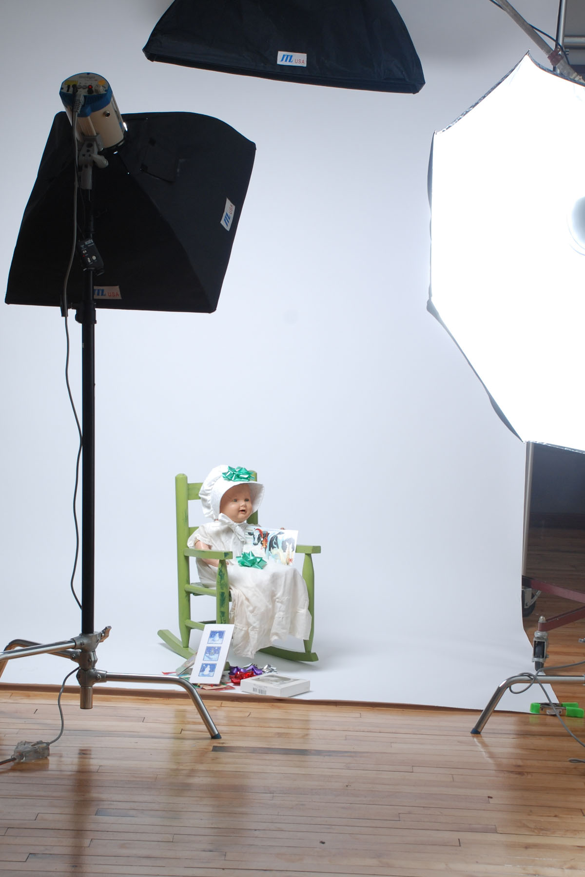 Photographic studio setup. This particular set-up: Main through a dark umbrella 45 degrees from subject. Fill, using a soft box, almost straight on. Hairlight (softbox) lighting the back of the screen for definition.